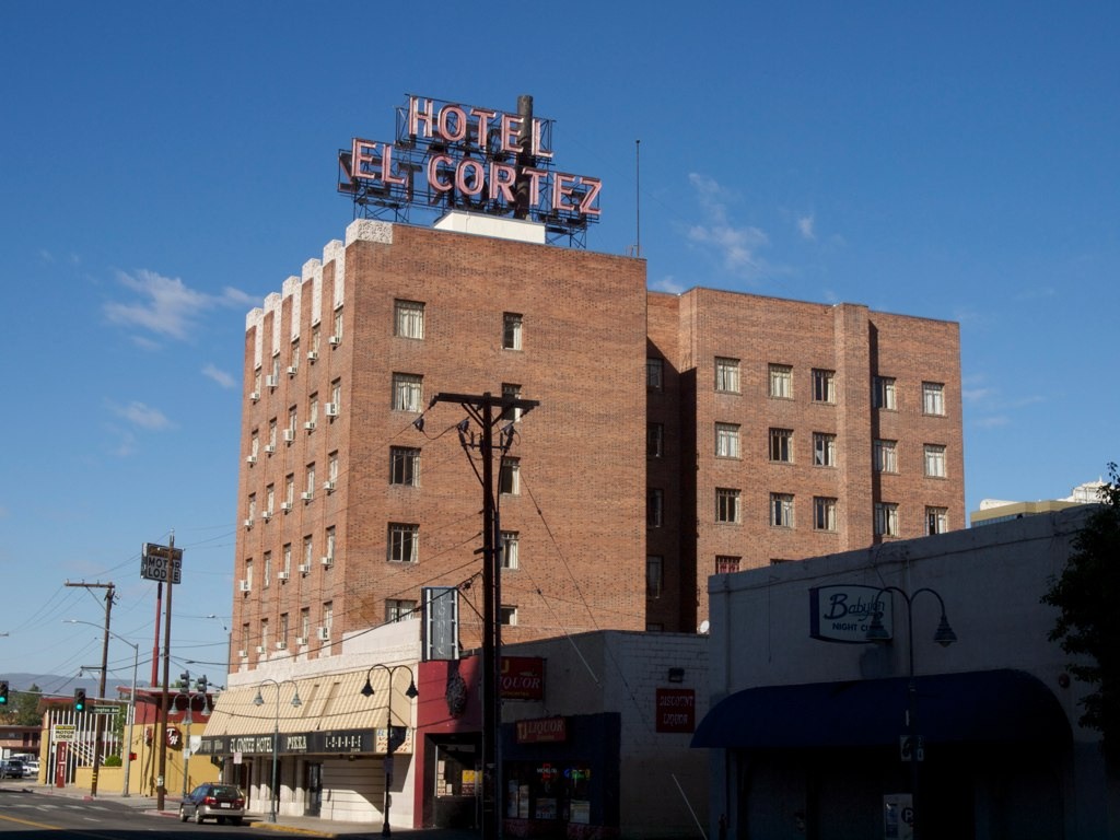 239 W. 2nd St, Washoe County, Reno, Nevada.